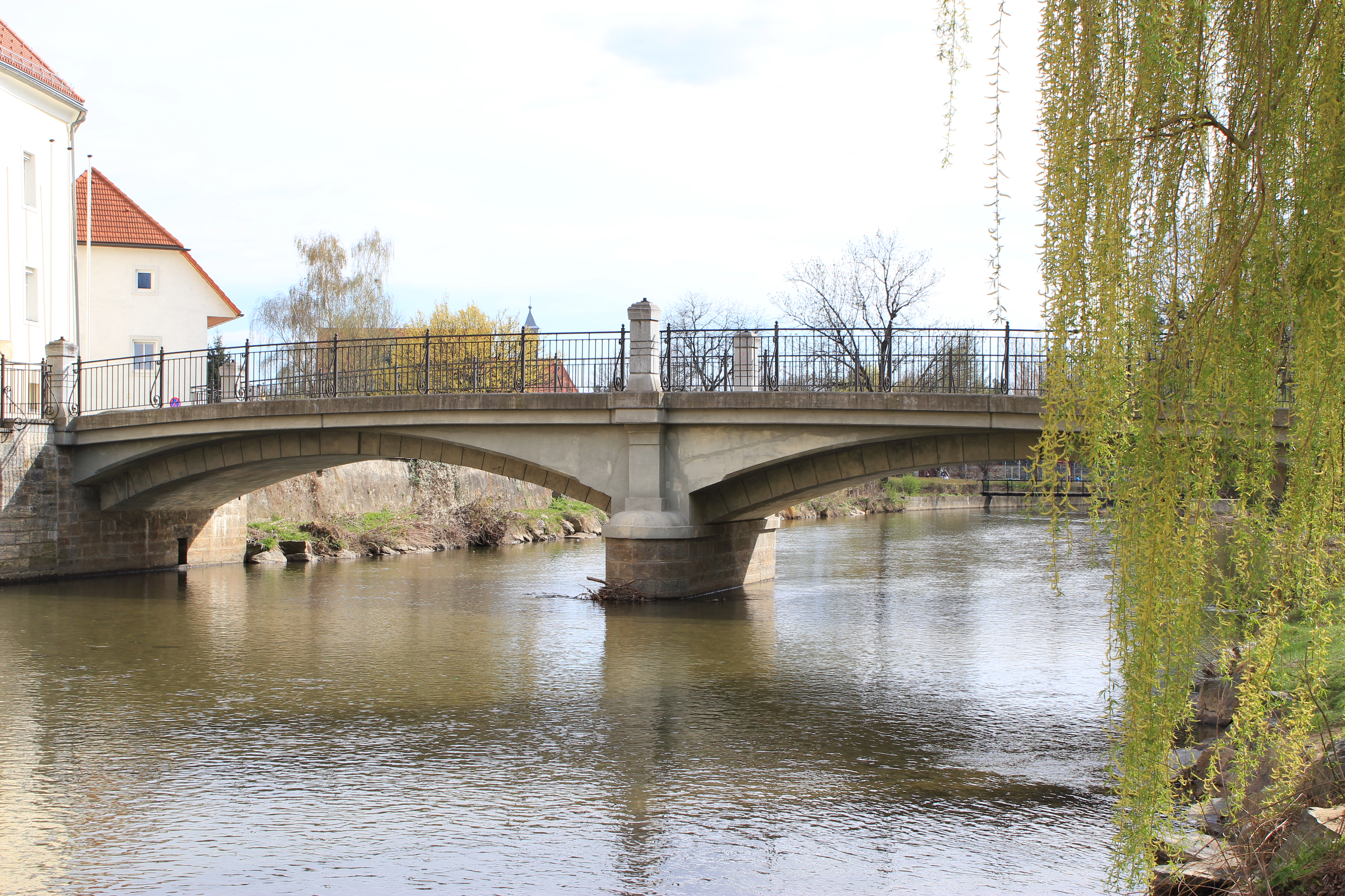 Radlstegbrücke in the community of Wolfsberg